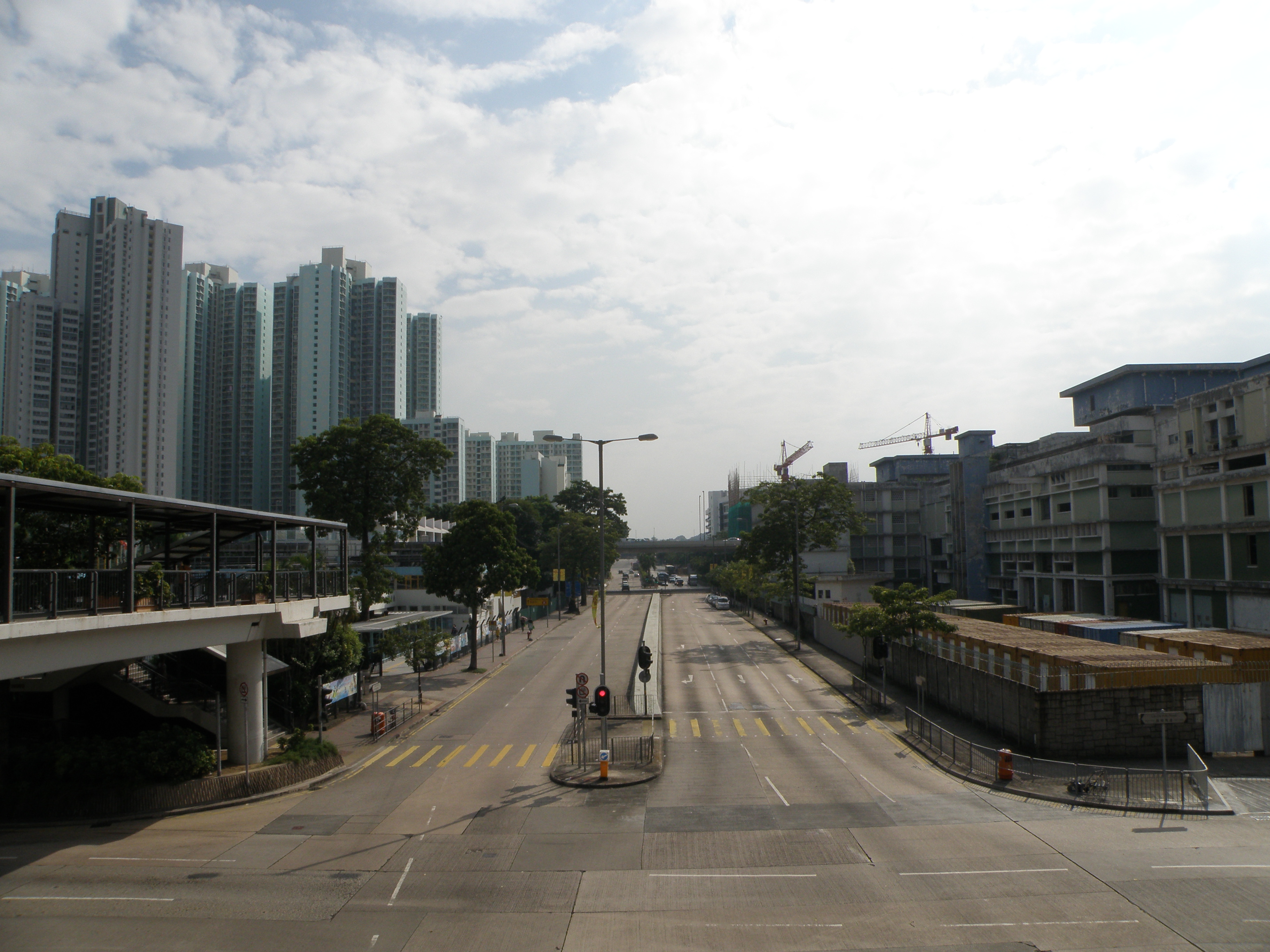 Tonkin Street near Sham Shui Po Park Swimming Pool, Cheung Sha Wan, Hong Kong.